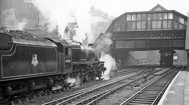 Nottingham Victoria Station and Tunnel, with train. View southward, towards Leicester and London, also Grantham etc.; ex-Great Central main line, Sheffield Victoria - London Marylebone, also ex-Great Northern Derby - Grantham line. Note the elaborate footbridge, which linked the two main islands at this south end, then the South Signalbox virtually underneath the massive Parliament Street Bridge and the Tunnel bore, immediately beyond which the Grantham line bore off left. The train, heading south behind Stanier Class 5 4-6-0 No. 44912, is a Sheffield Victoria to Poole express, which will leave the London line at Woodford Halse for Banbury, thence Oxford, Didcot, Reading West, Basingstoke, Southampton and Bournemouth.